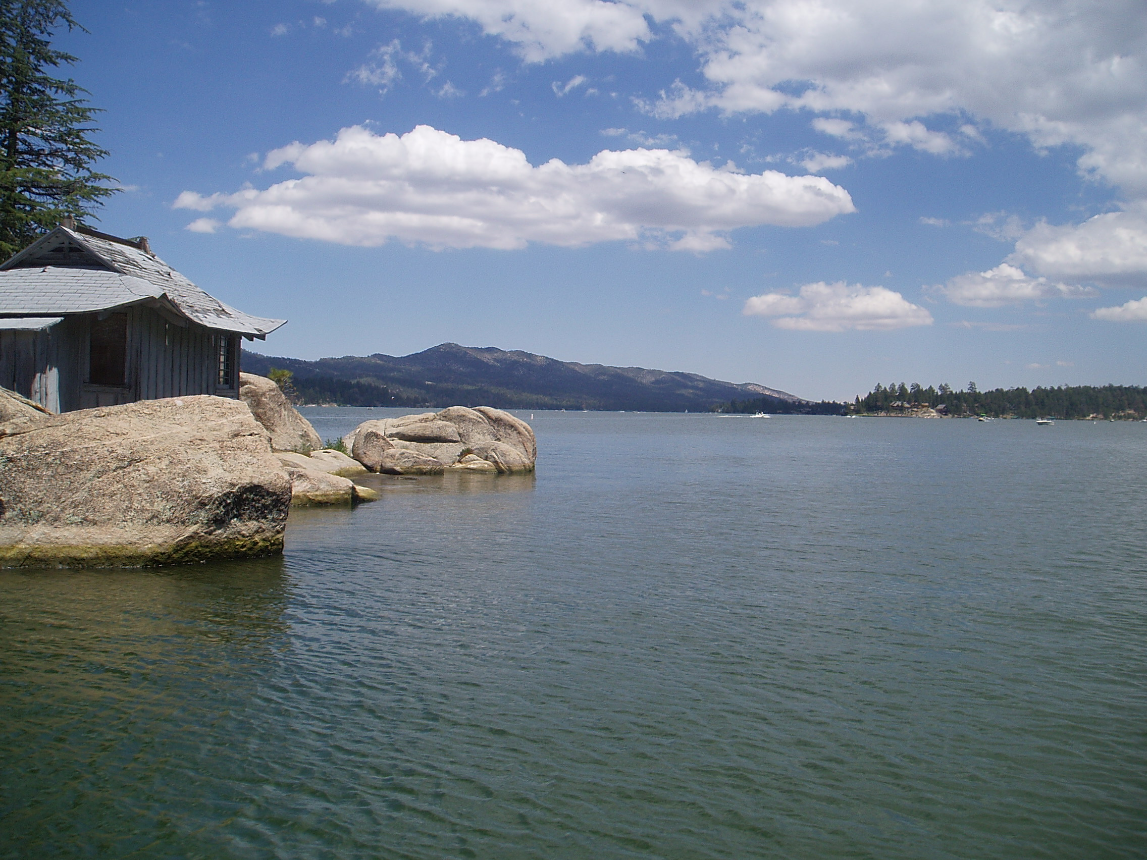 California's Big Bear Lake. Photo taken near China Island looking East